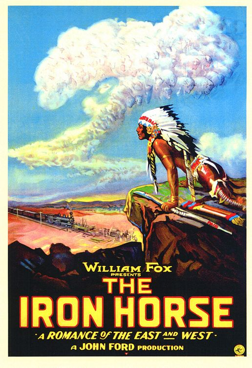 Theatrical release poster for the film The Iron Horse, directed by John Ford.